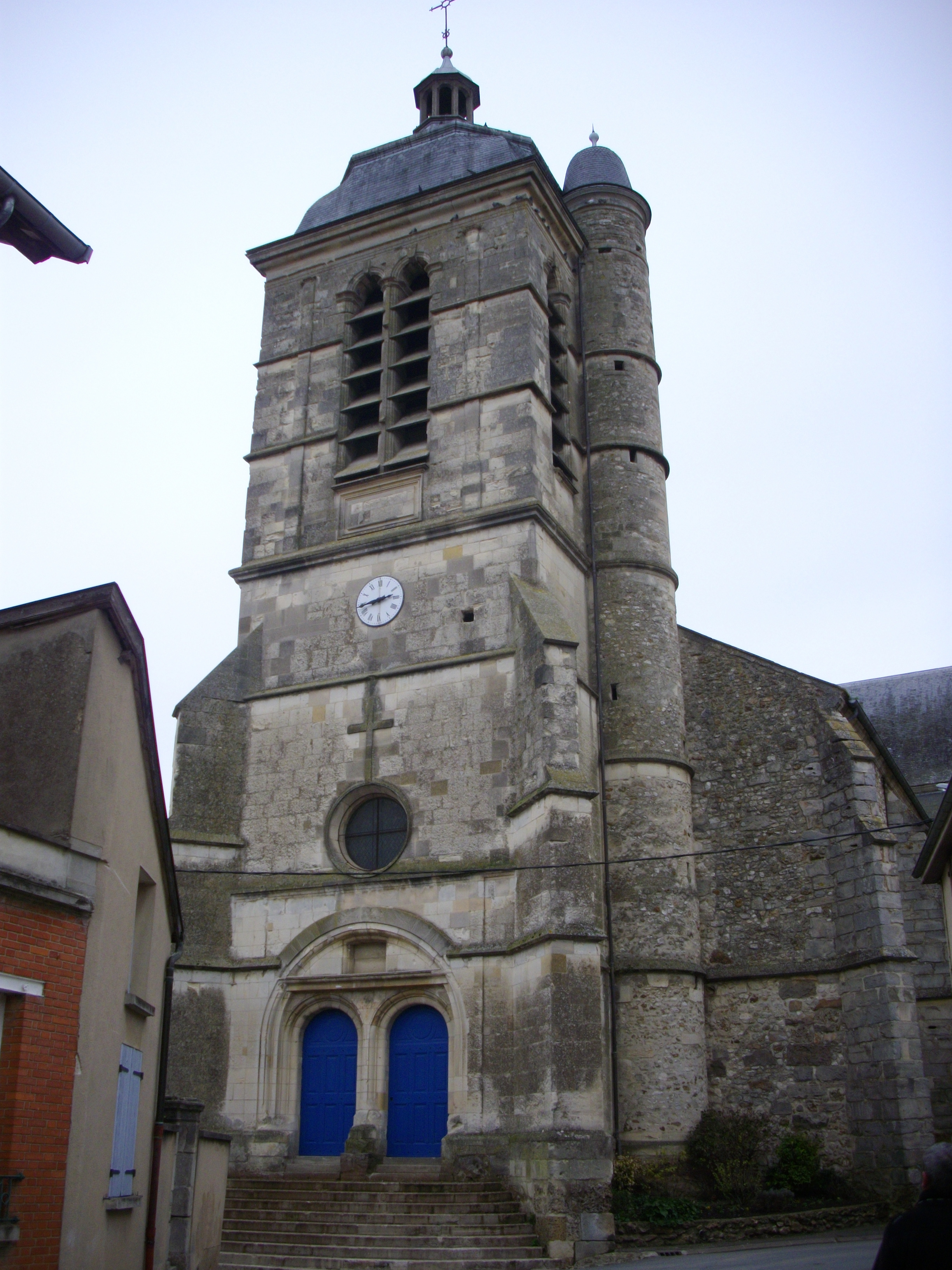 Saint Martin church of Troissy (Marne, France)